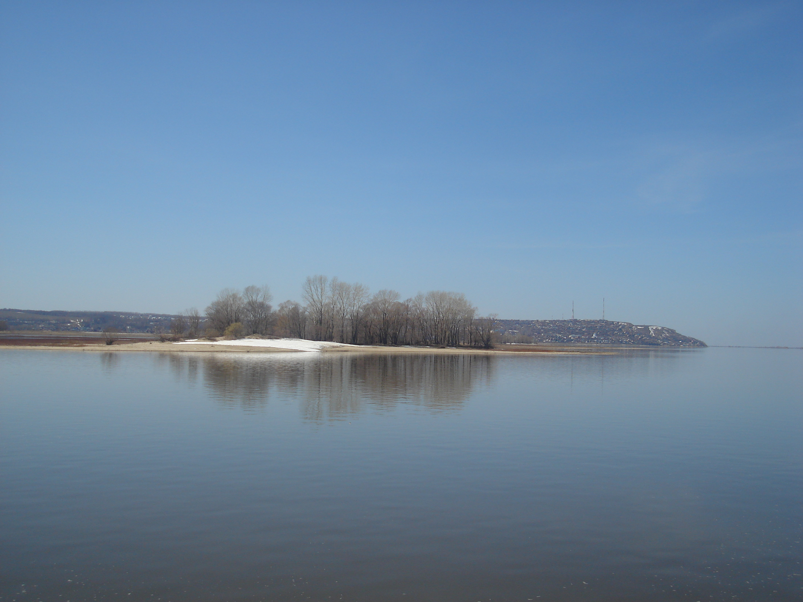 Isle Markiz in April 2011, with Verkhny Uslon behind it